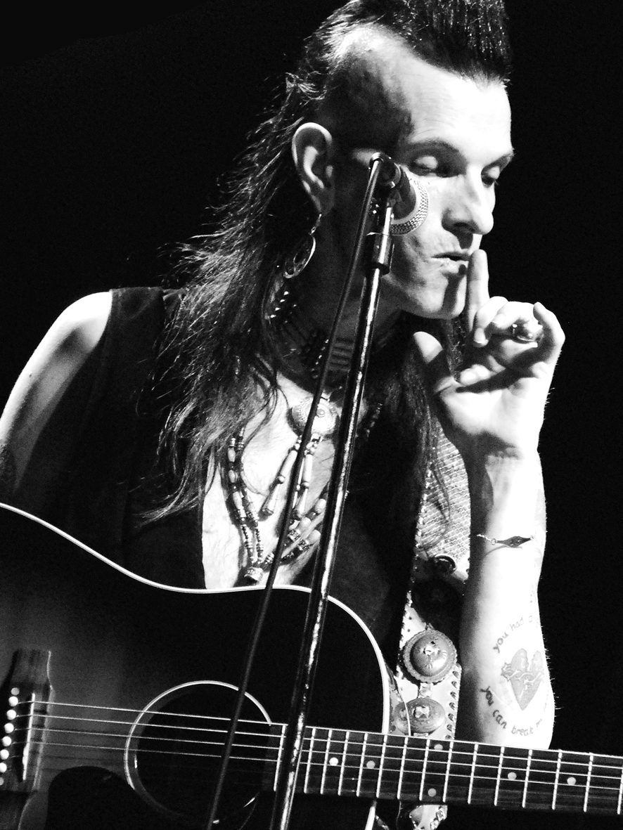 Willy DeVille @ Liri Blues 2007